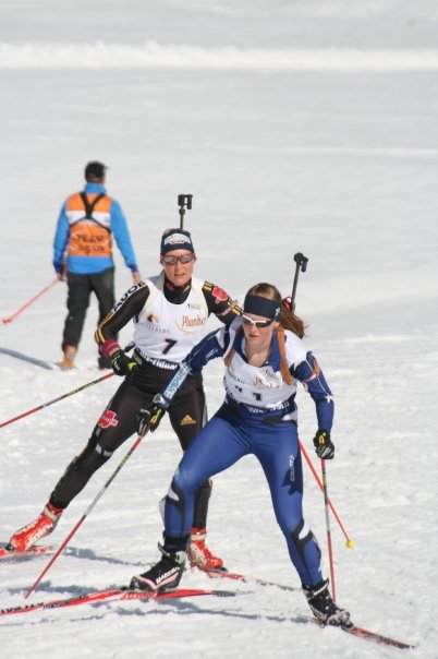 Amanda Lightfoot (front) and Romy Beer (background) during an IBU-Cup competition in Ridnaun 2009